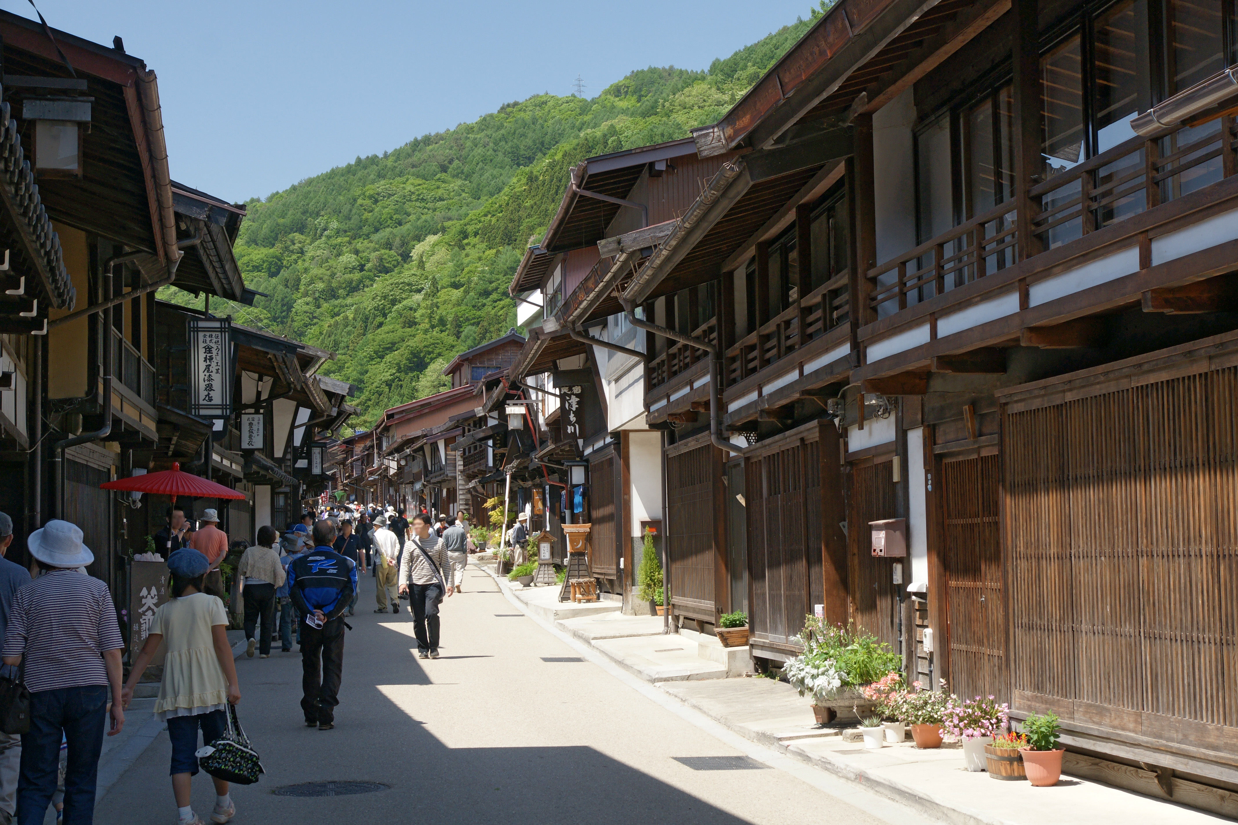 Narai-juku, Shiojiri, Nagano prefecture, Japan